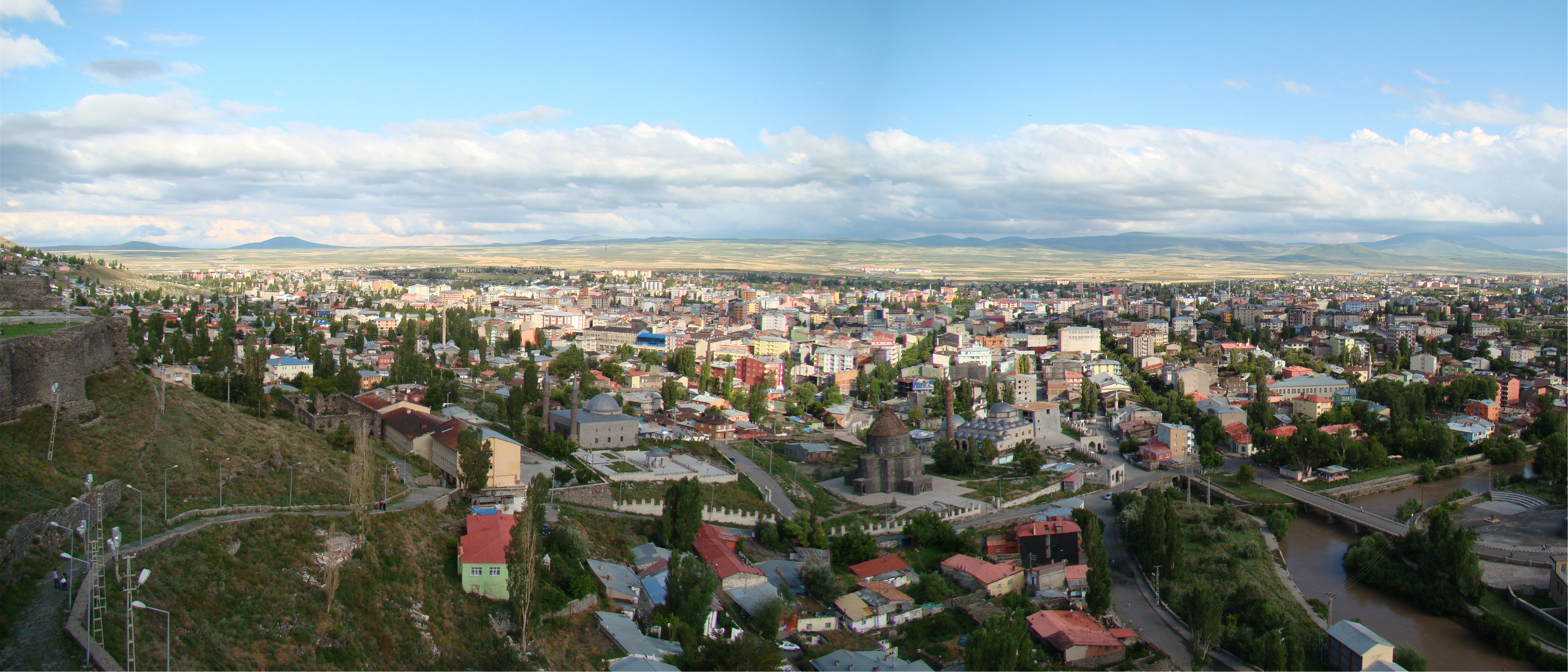 A panorama from the fortress above Kars, Turkey, looking south-west from the north-east side of the city. On the left edge of the photo you can see some of the fortress walls, and a graveyard in the distance. Below the hill straight ahead is the original Armenian Church of the Apostles dating from 939 AD, which since 1998 has been a mosque. Behind it on the right is the Evliya Mosque The water flowing past the church/mosque is the Kars Canal.